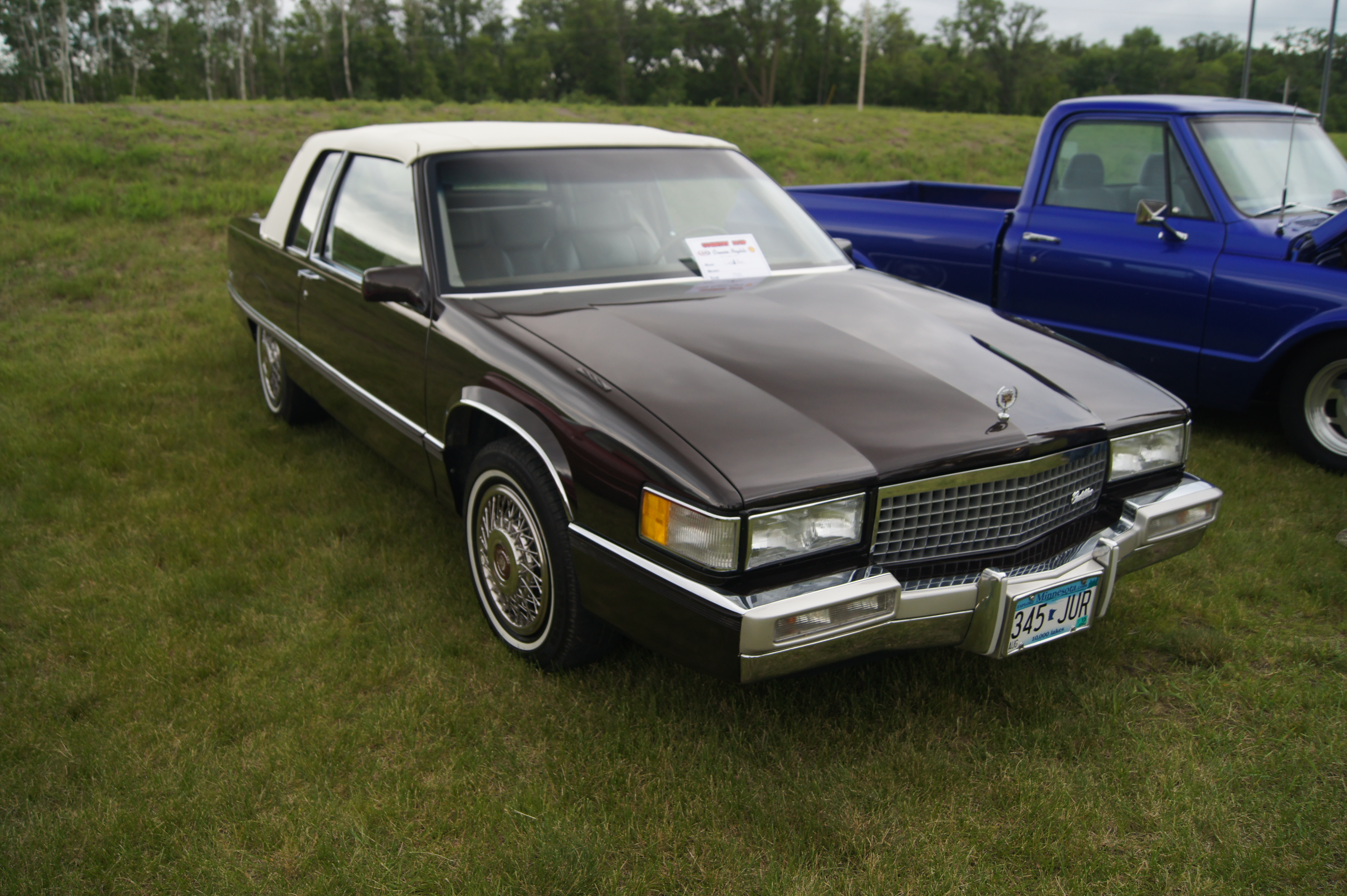 A&W Cruise Night June 2015 A&W Country Stop New London Minnesota Click here for more car pictures at my Flickr site.